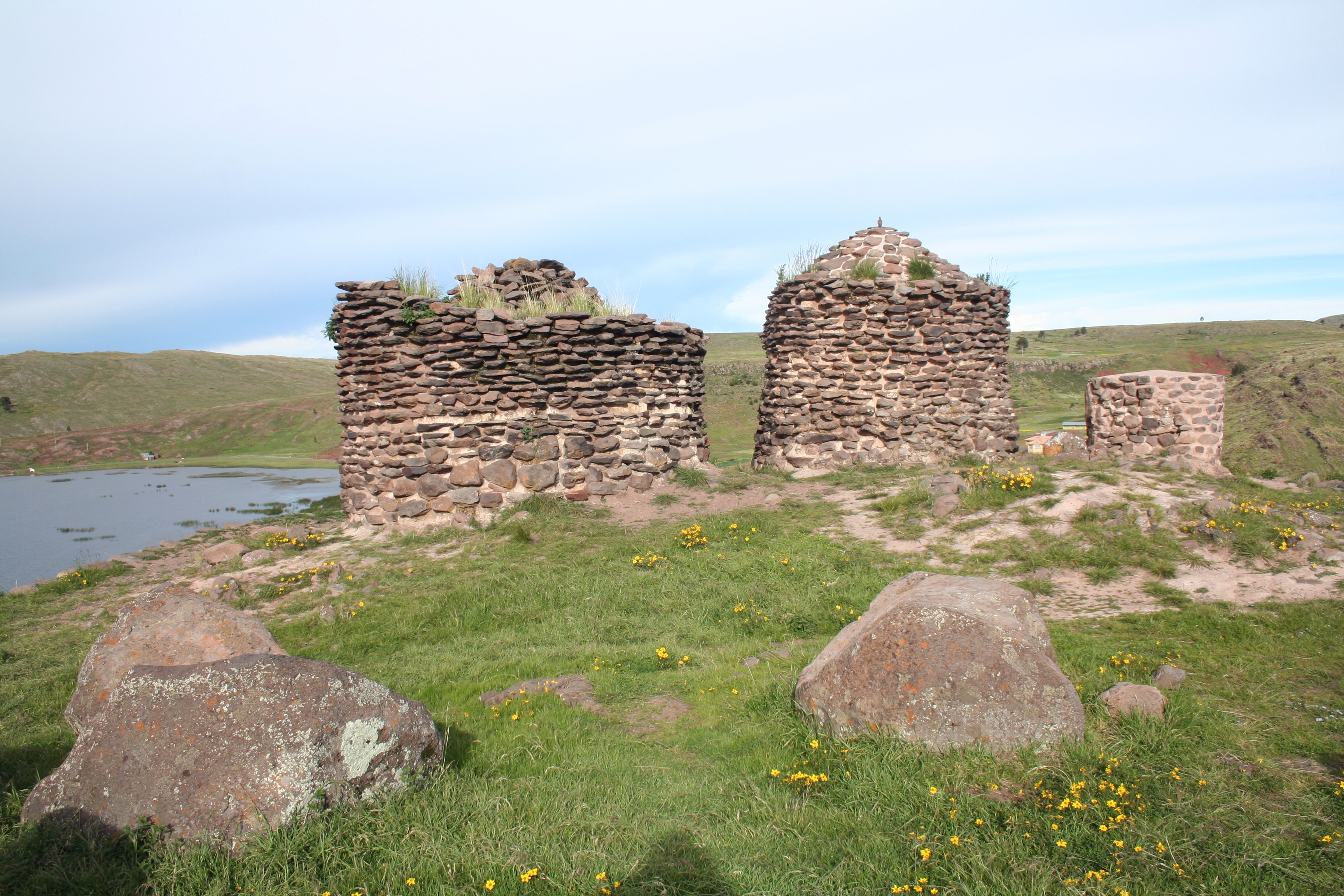 Sillustani / Peru - Chullpa from Tiwanaku epoch